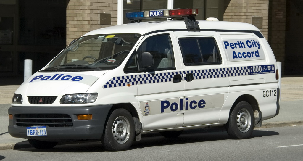 Mitsubishi Starwagon Western Australia Police GC112 Perth City Accord van, Perth District - Central Station.